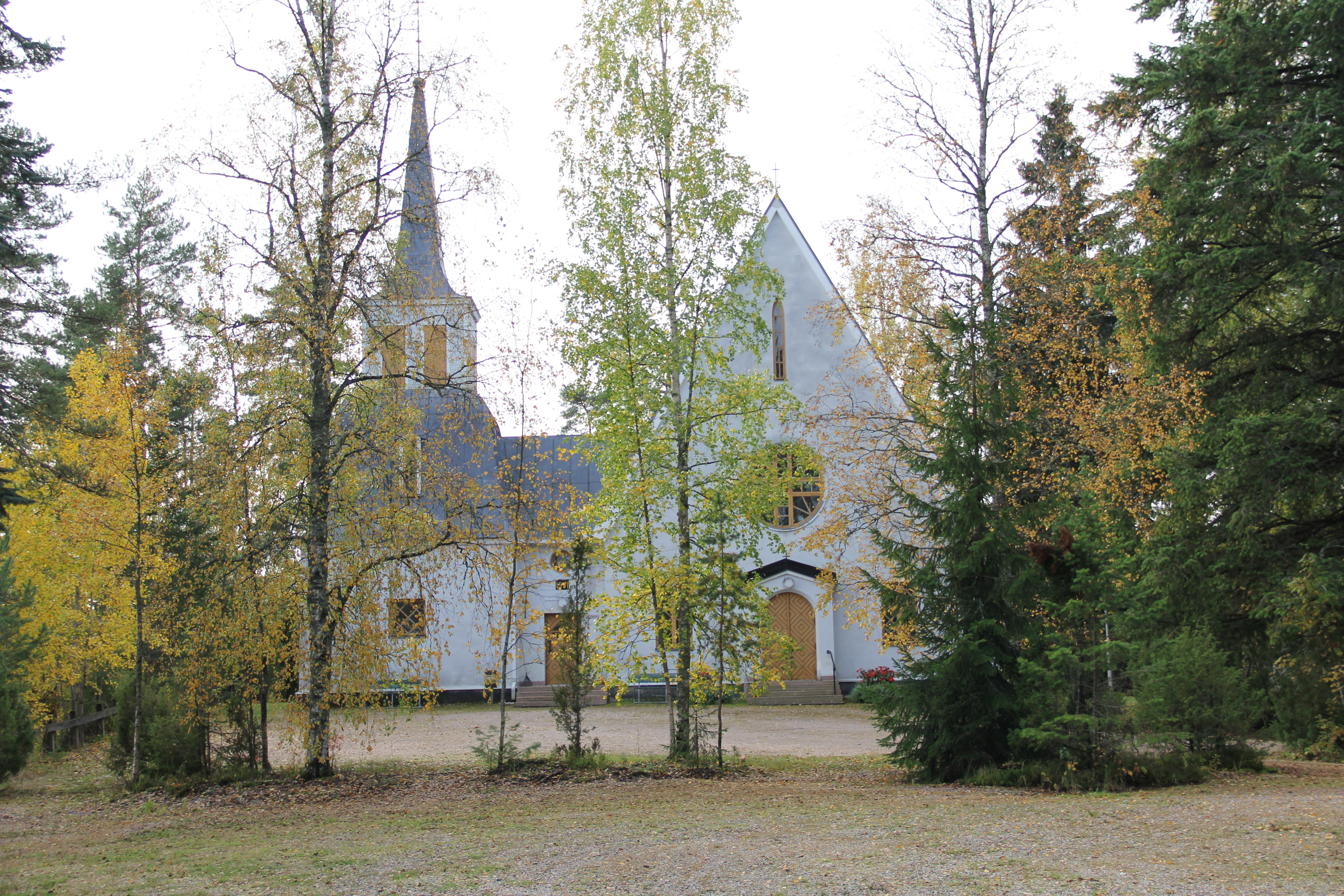 Kuivanto church in Kuivanto, Orimattila, Finland. The village church is designed by master builder Heikki Tiitola and completed in 1931.